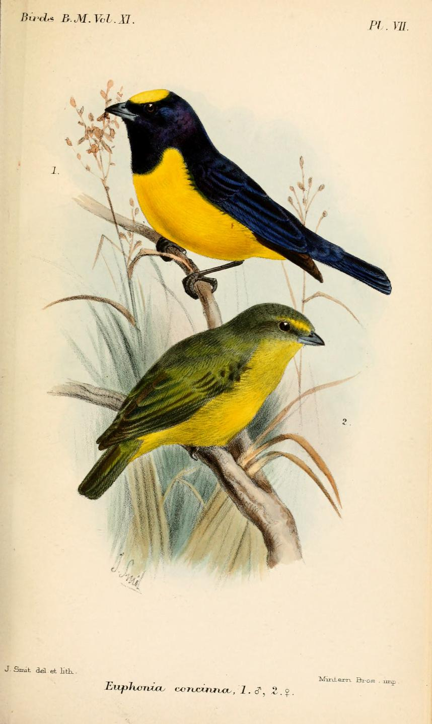 Euphonia concinna, 'Velvet-fronted Euphonia